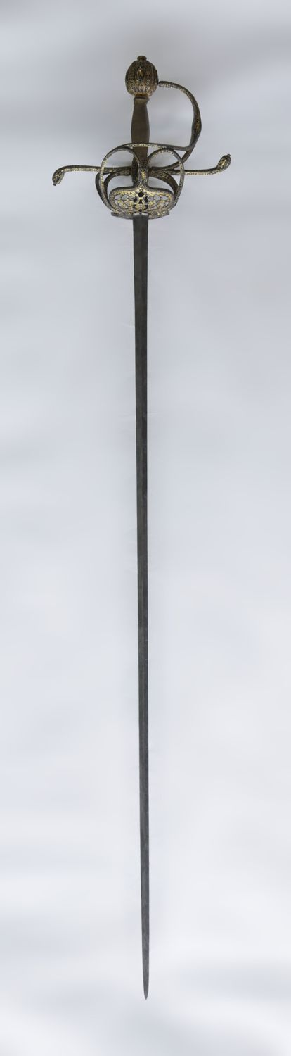 sword that used to belong to Rubens